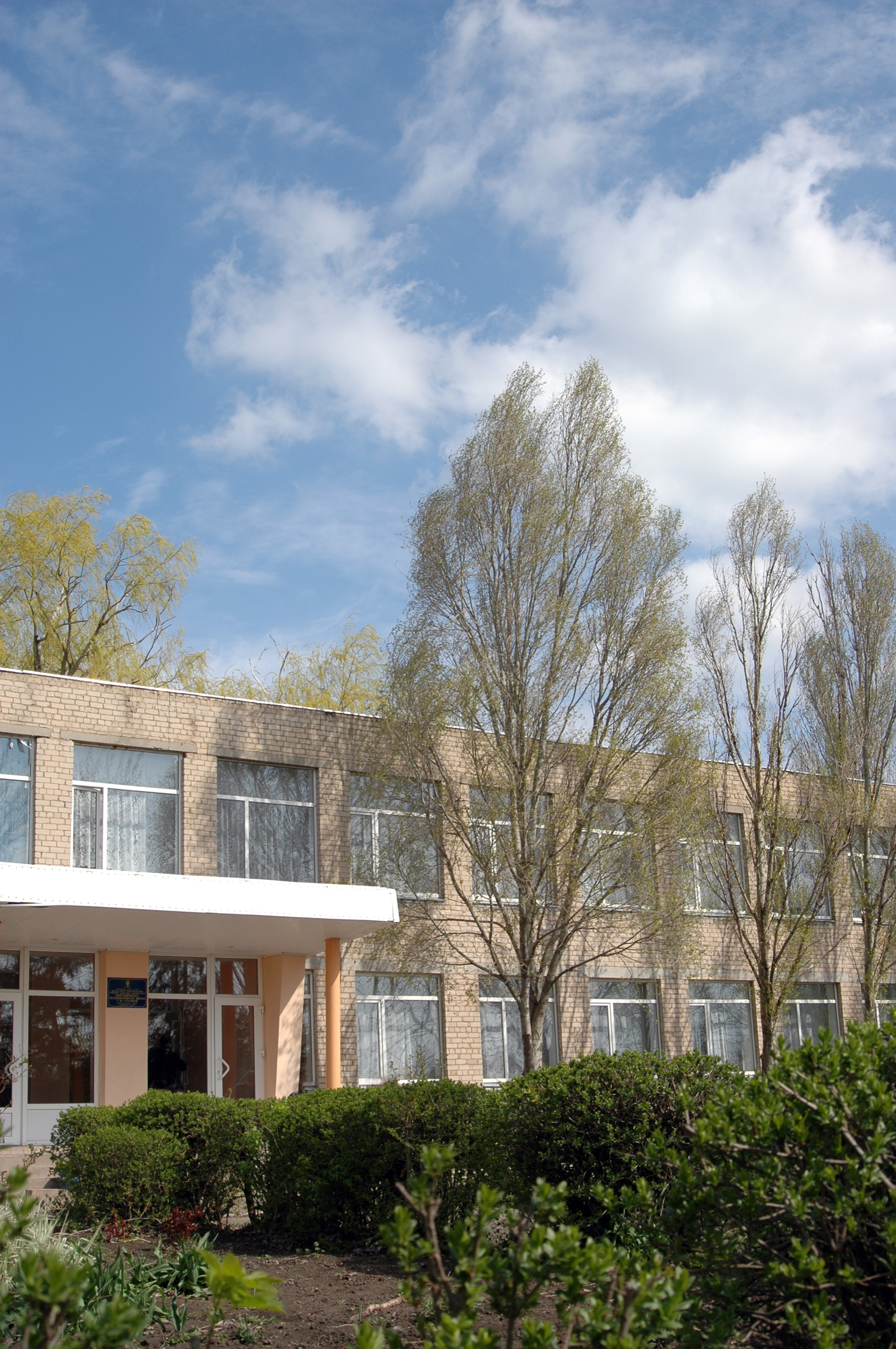 School in Vidrodzhennya village, Melitopol raion, Ukraine